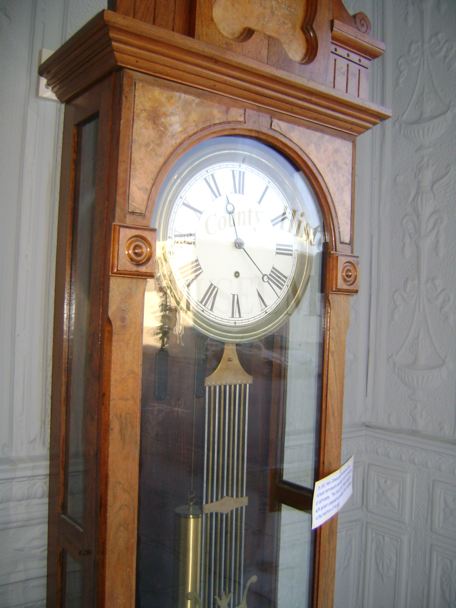 Nels Johnson of Manistee, Michigan, 1892 longcase clock.